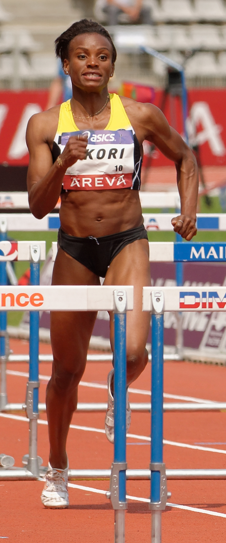 Cindy Billaud wins the second series of the 100 metres hurdles in 12"75 during the French Athletics Championships 2013 at Stade Charléty in Paris, 13 July 2013.